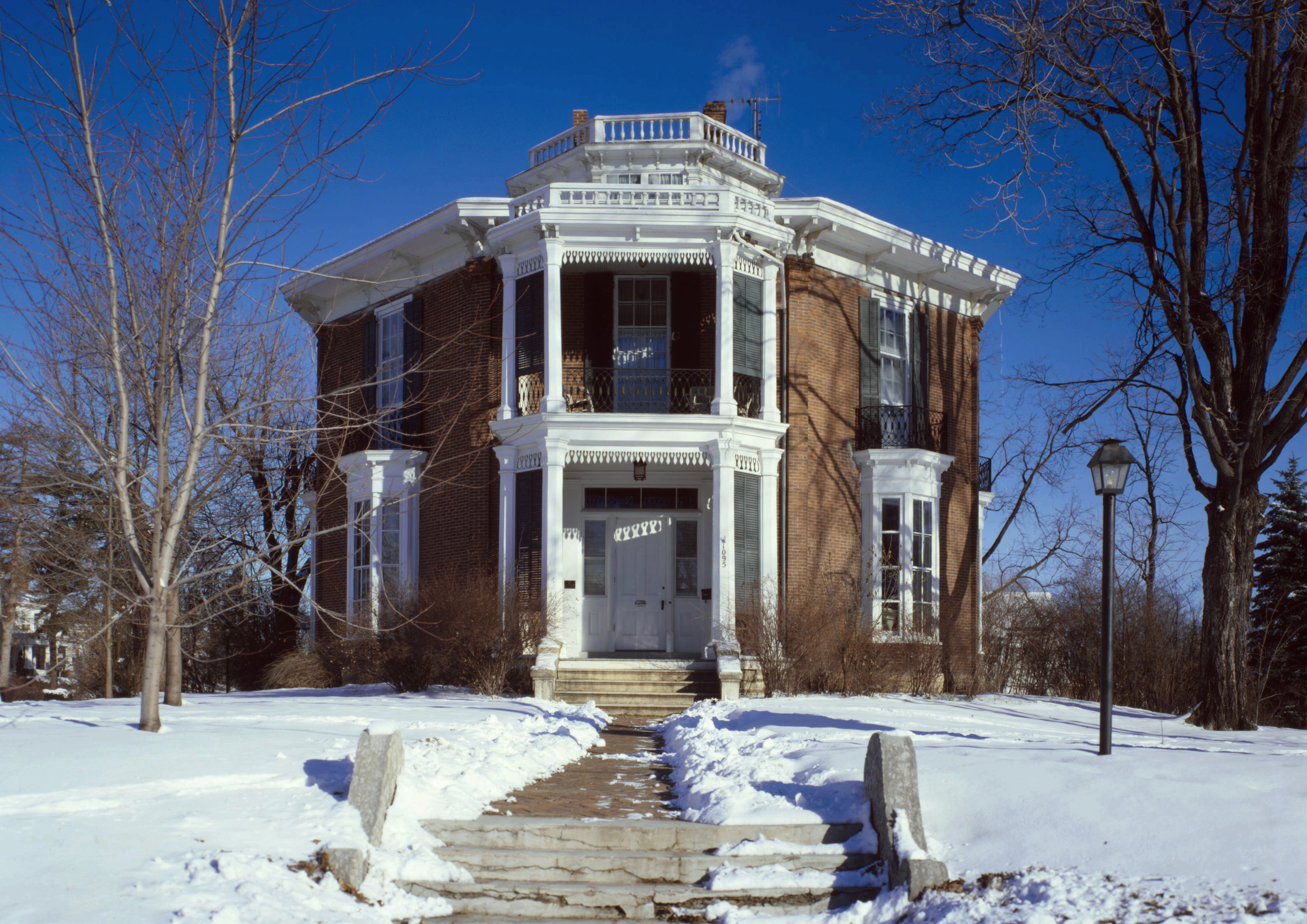 Southern front of the Langworthy House, an octagon house located at 1095 W. Third Street in Dubuque, Iowa, United States. Built in 1856, it is listed on the National Register of Historic Places.